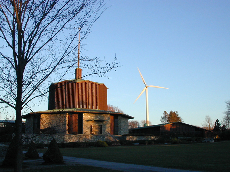 Portsmouth Abbey School, with the school's Vestas V47-660 kW wind turbine, installed in 2006.